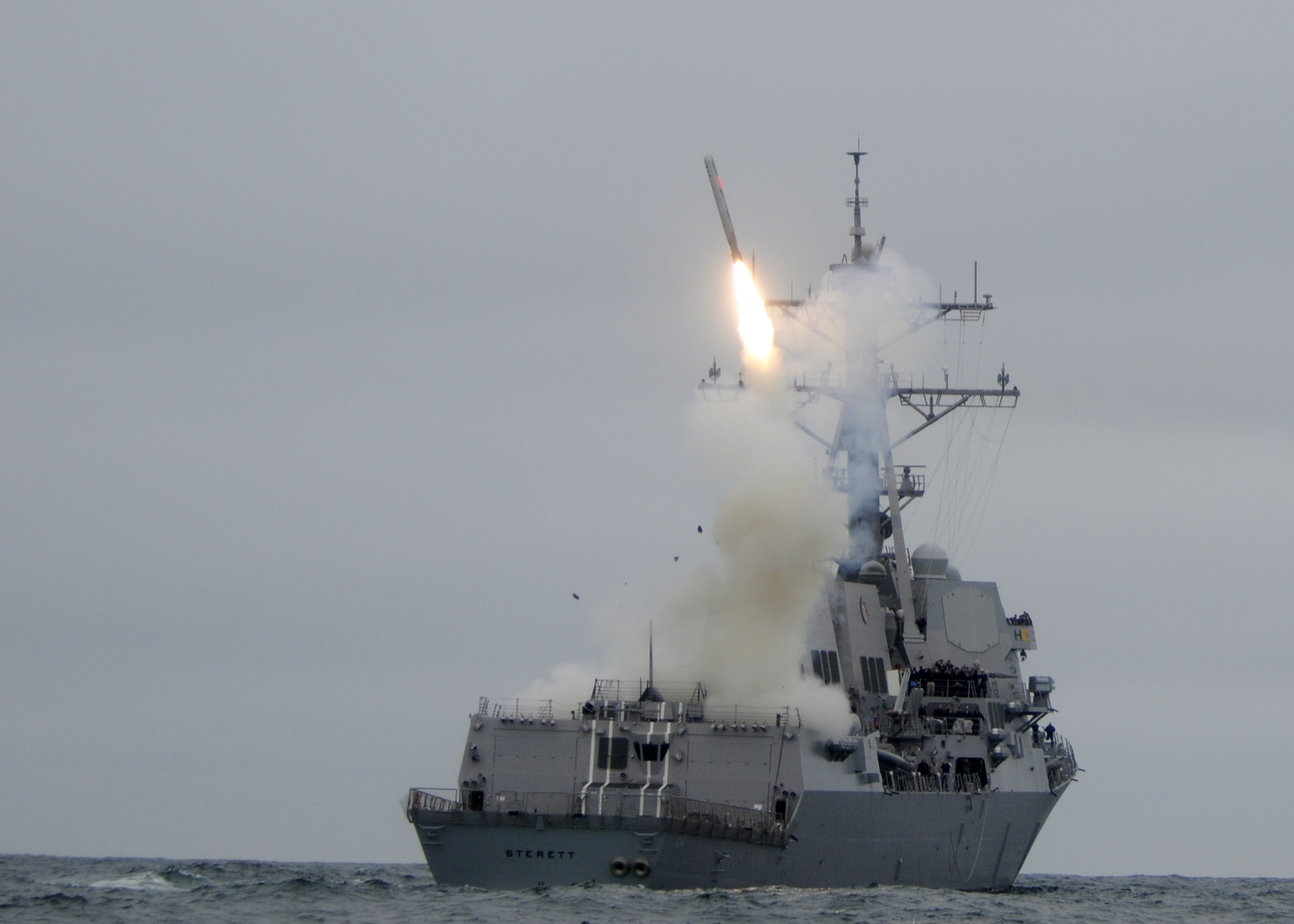 PACIFIC OCEAN (June 23, 2010) The guided-missile destroyer USS Sterett (DDG 104) successfully launches its second Tomahawk missile during weapons testing. Sterett is underway off the coast of Southern California conducting Tomahawk missile testing in preparation for an upcoming deployment. (U.S. Navy photo by Mass Communication Specialist 1st Class Carmichael Yepez/Released)